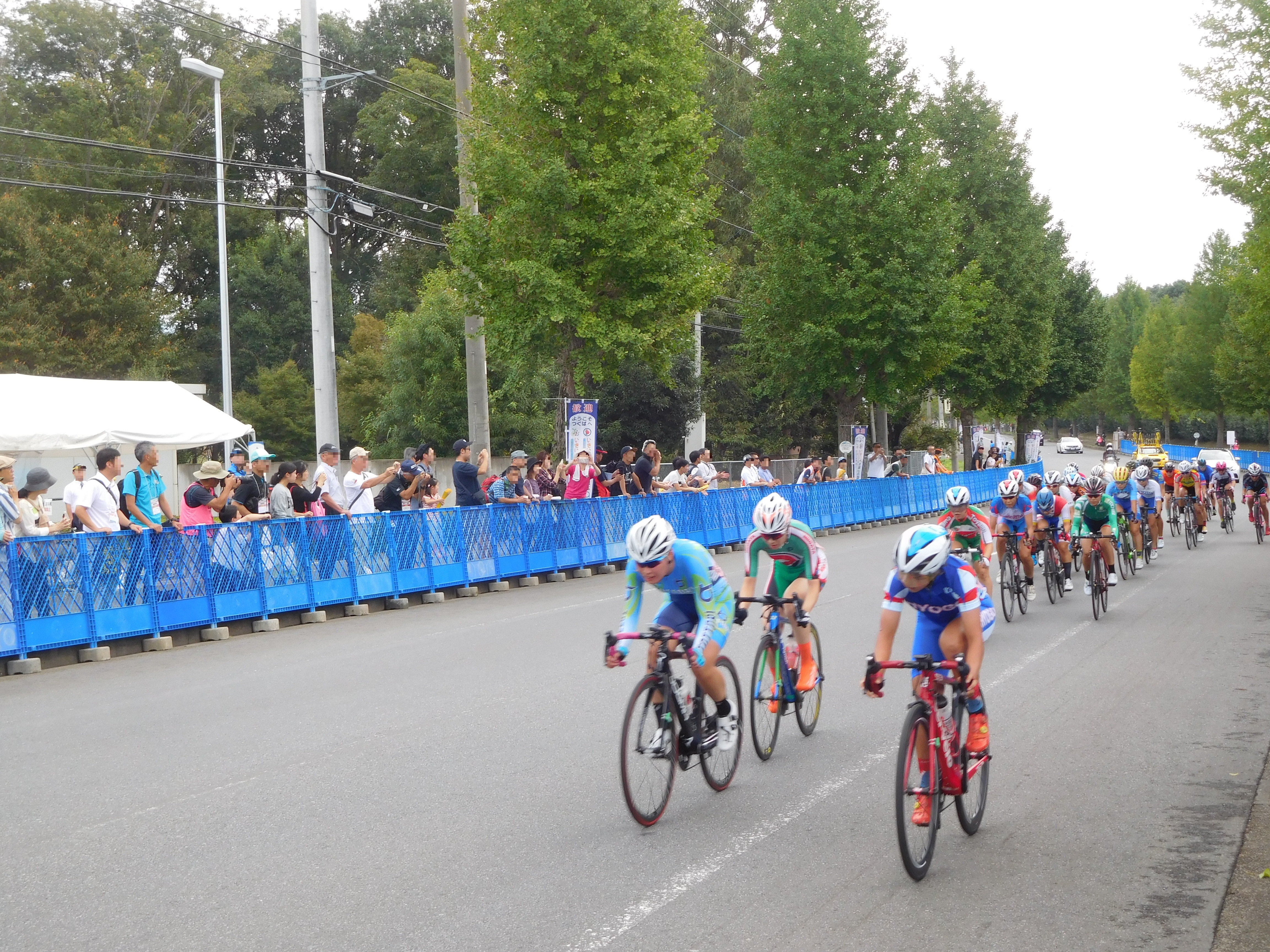 Road Cycling Competition at the 74th National Sports Festival of Japan. One scene of the women's race.